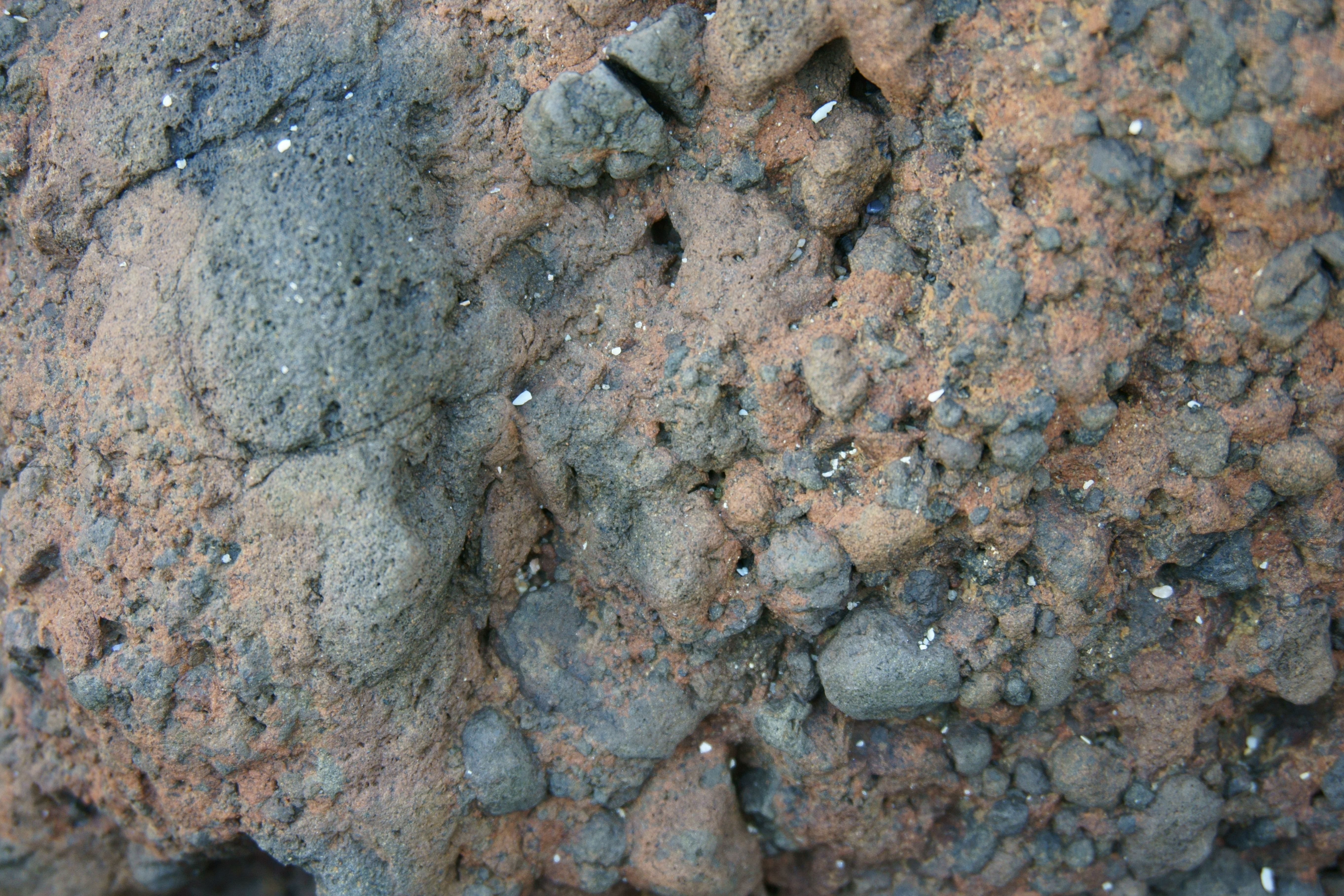 Scoria tuff rock. Nagatare coast in Nishi-ku, Fukuoka city, Fukuoka prefecture, Japan.